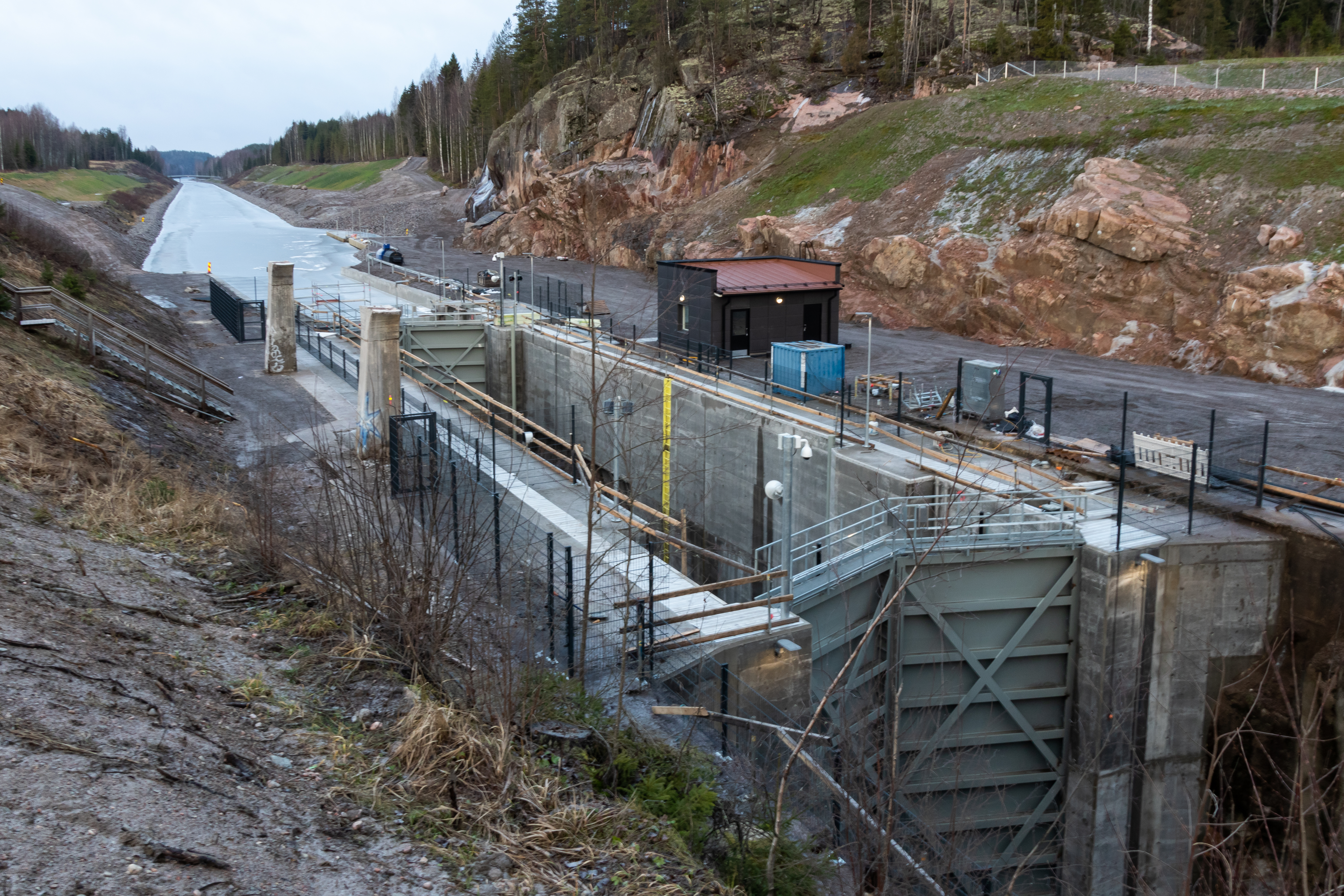 Nearly finished Kimola Canal in Kouvola, Finland.